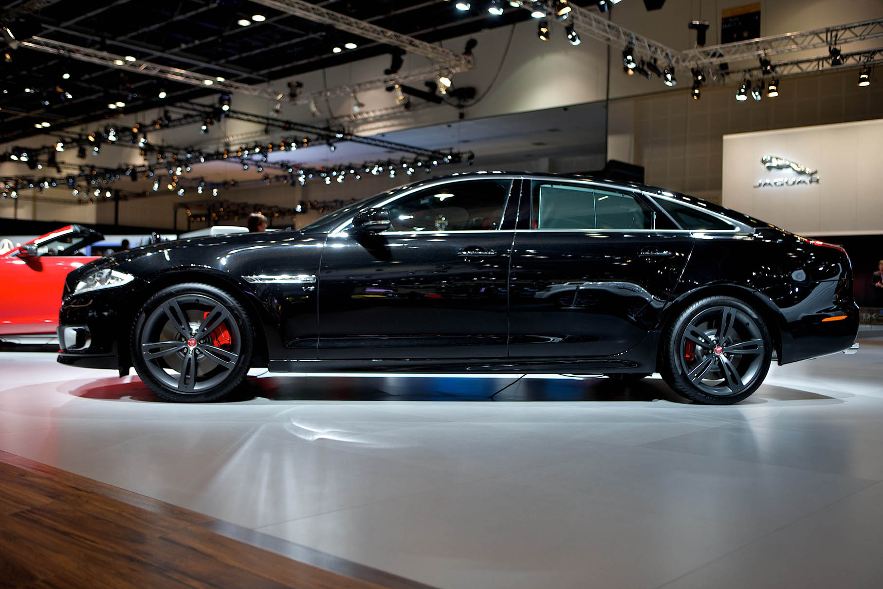 Luxury automotive manufacturer Jaguar Land Rover today revealed a sneak preview of the next generation of its technologically advanced vehicles at the Dubai International Motor Show. Regional reveals included the Jaguar C-X17 Crossover Concept and the dynamic all-aluminium Project 7 roadster from Jaguar which debuted beside the model it was based on, Jaguar’s acclaimed F-TYPE.